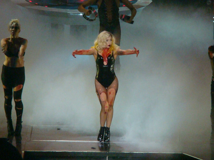 Lady Gaga performing at the Monster Ball in Vancouver, British Columbia Canada